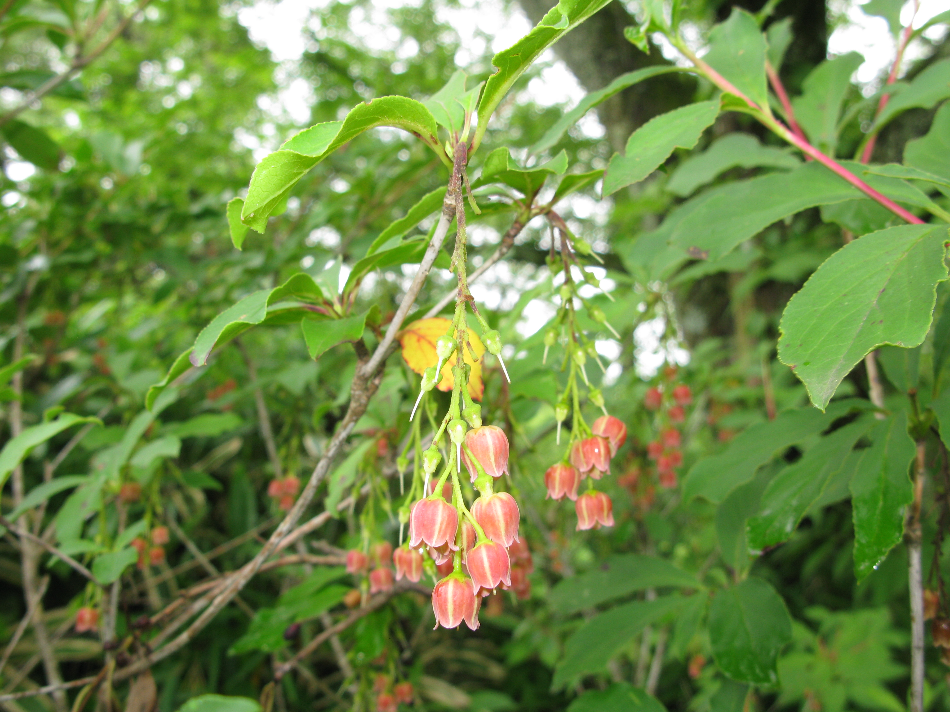 Enkianthus sikokianus, Botanical Gardens, Tohoku University, Miyagi pref., Japan